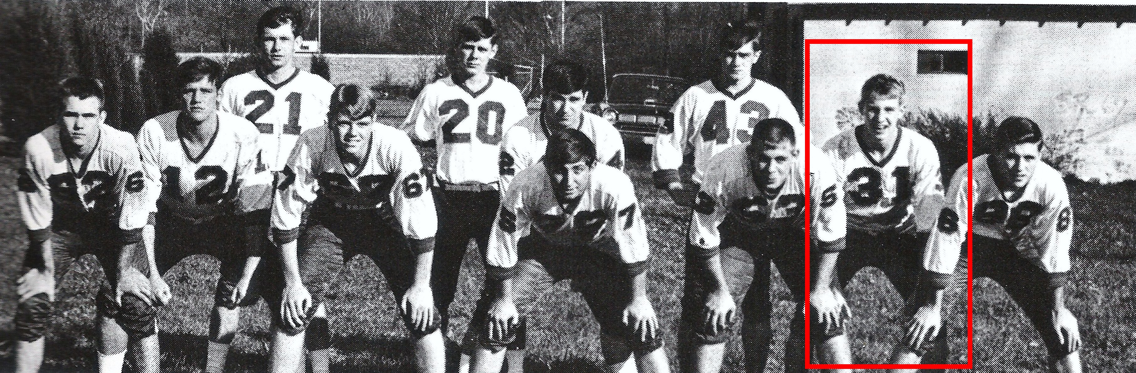 Starting defensive lineup, from the 1969 edition of The President, the yearbook of Herbert Hoover High School, Billy Joe Mantooh highlighted.